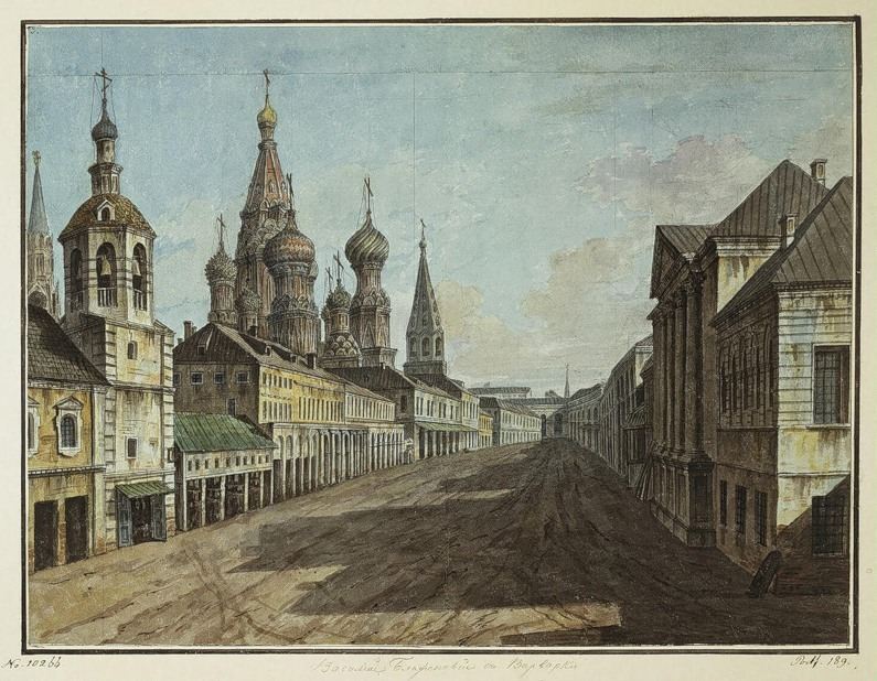 en: Fedor Alekseev Title